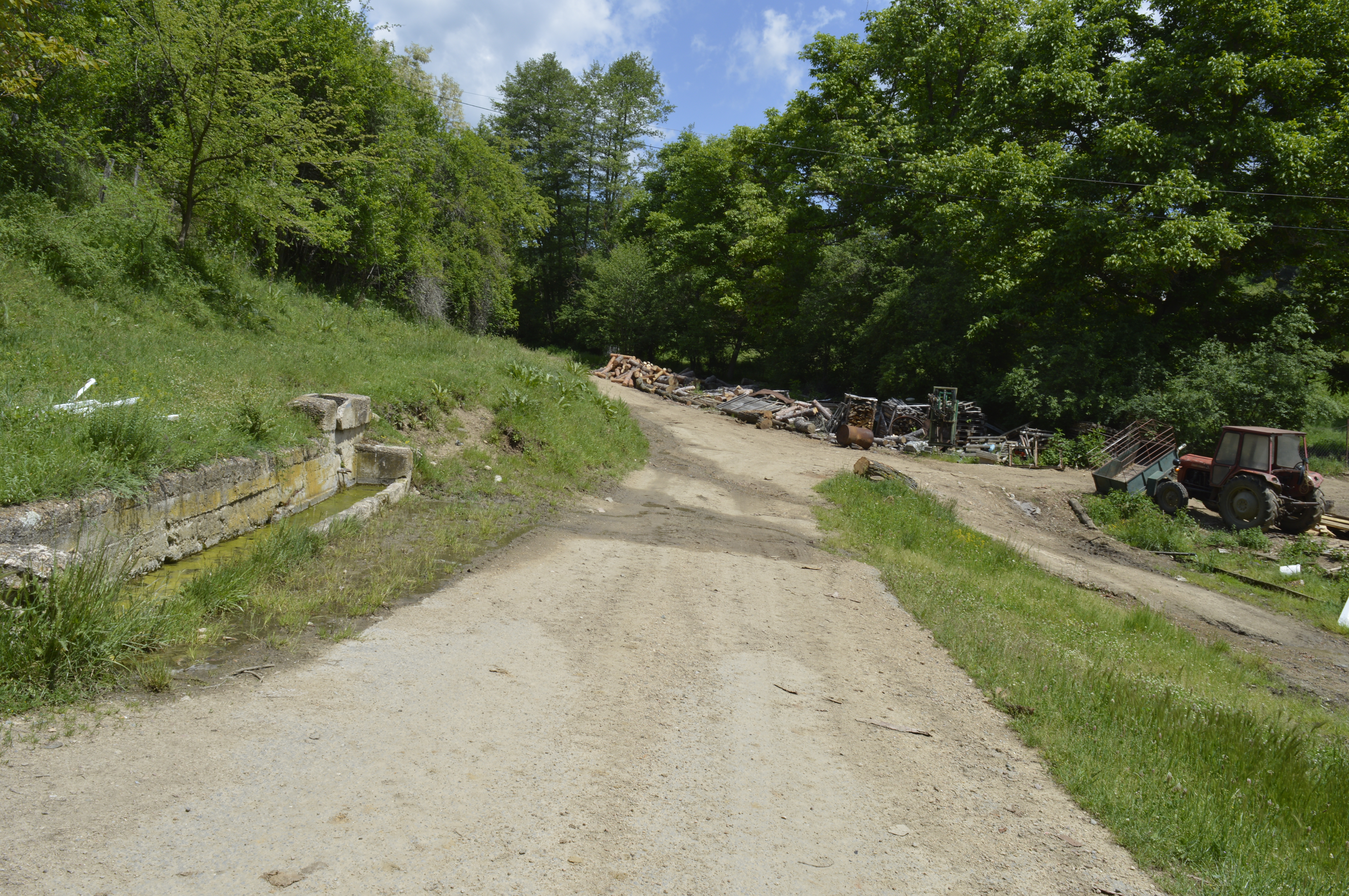 Old village pump in Star Istevnik